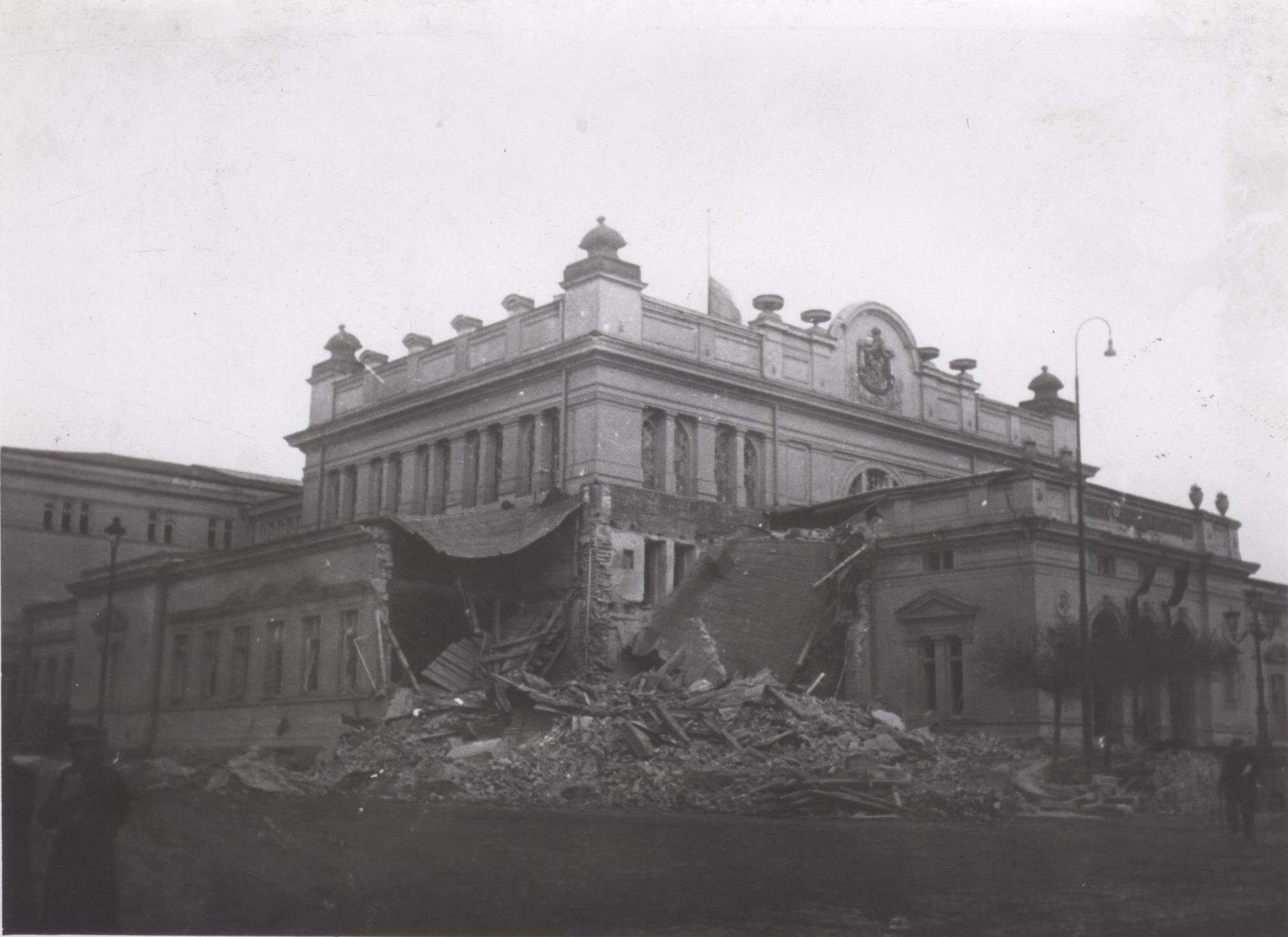 Sofia Bombings 1944: The National Assembly of Bulgaria